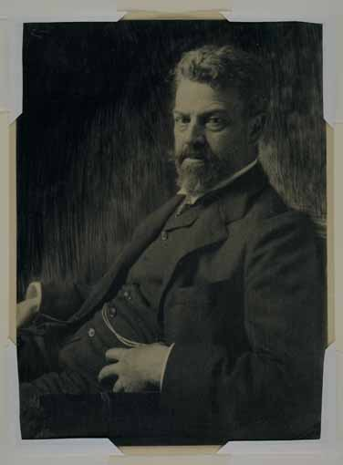 The bavarian Painter Friedrich August von Kaulbach (1850-1920)